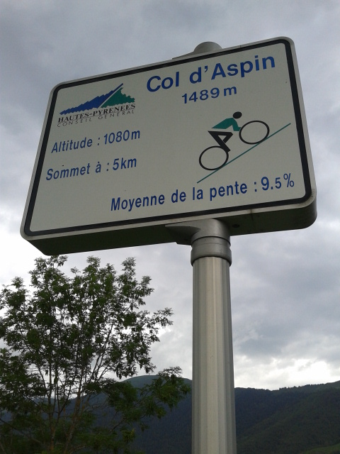 Mountain pass cycling milestone at the Col d'Aspin in France ascending from Arreau